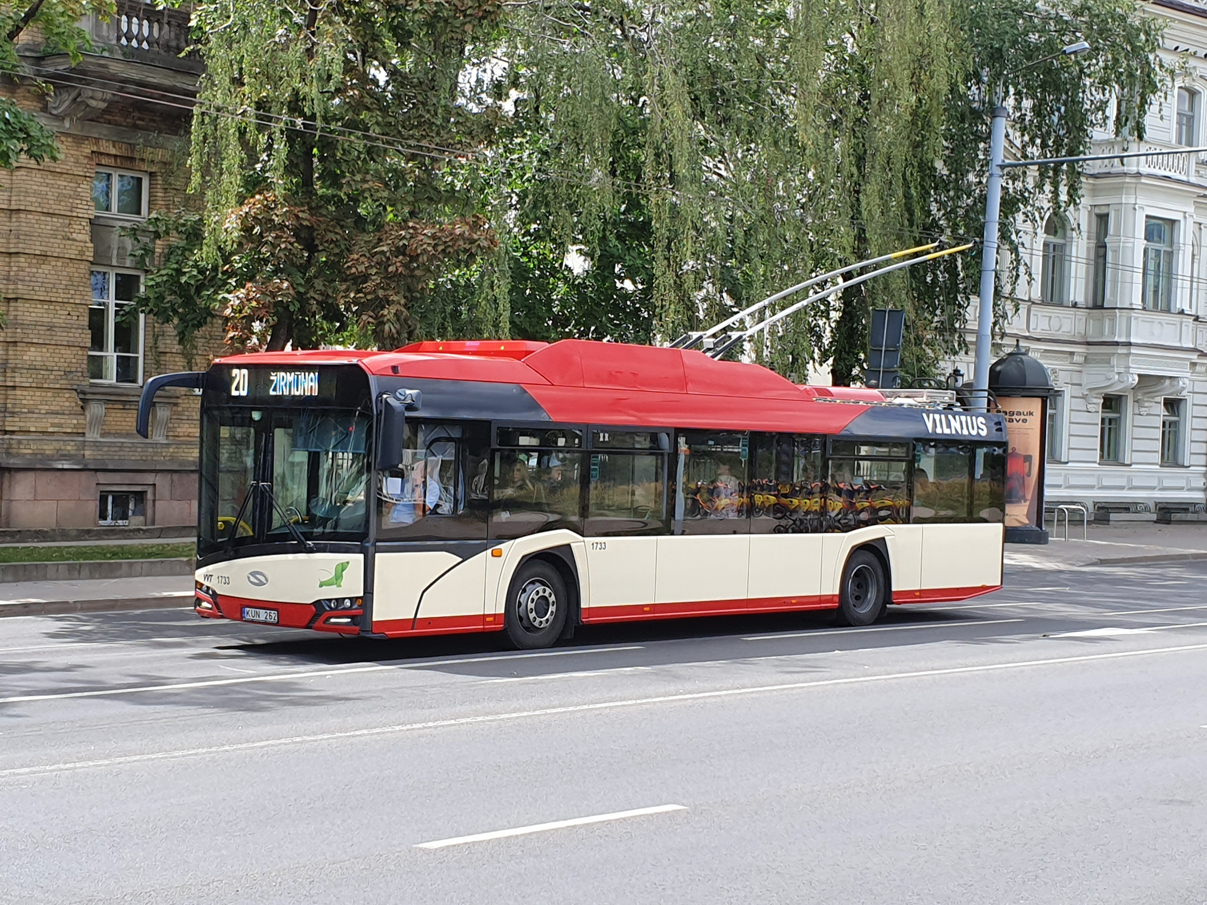 Solaris Trollino 12 trolleybus of the Vilnius public transport in Vilnius, Lithuania.